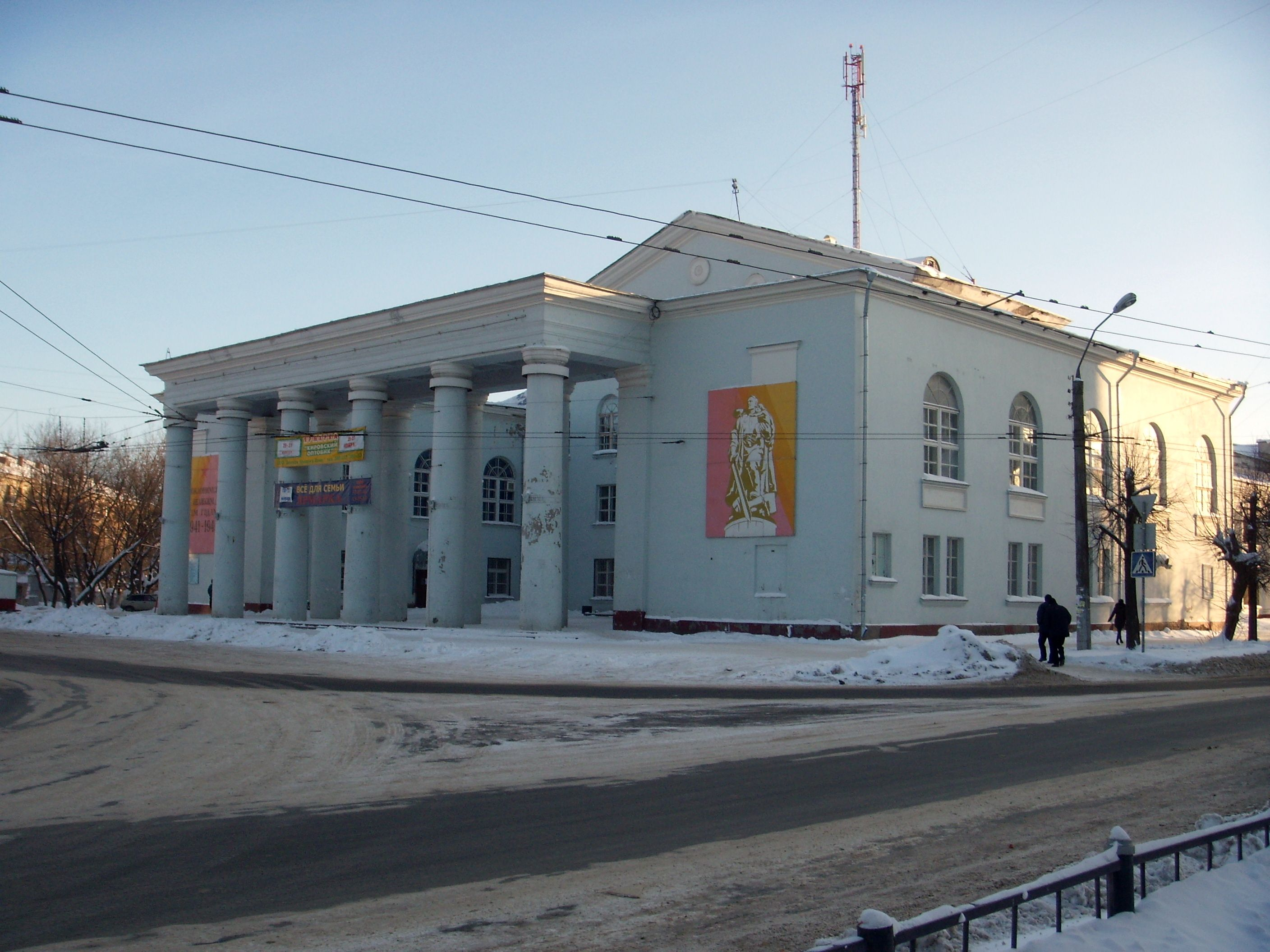 House of Culture of Avitec factory